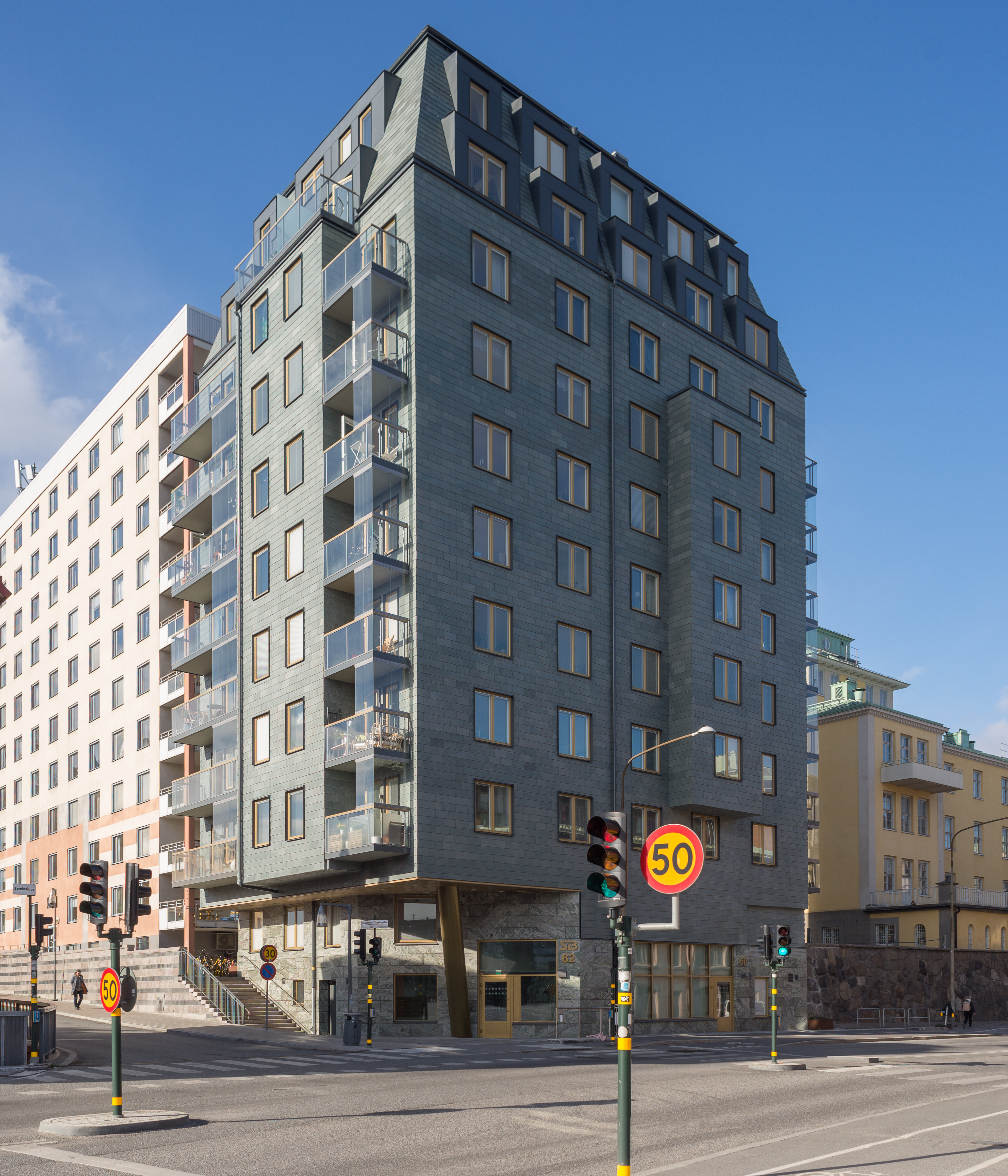 Tegnérs torn is a residencial building in Vasastan, Sweden.